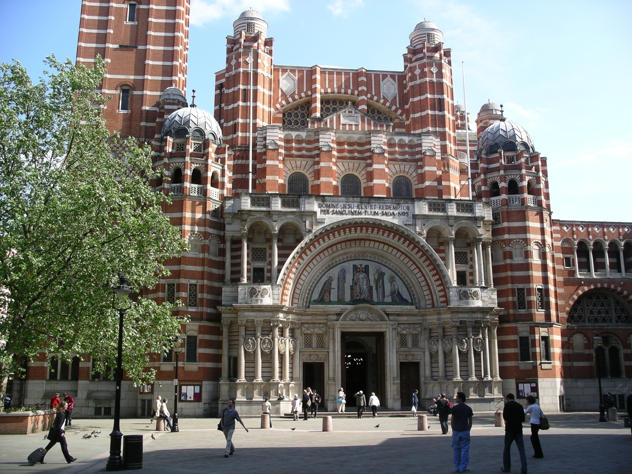 Frontage of Westminster Cathedral, London